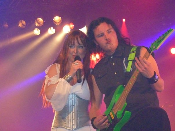 Heidi Parviainen and Kasperi Heikkinen live.